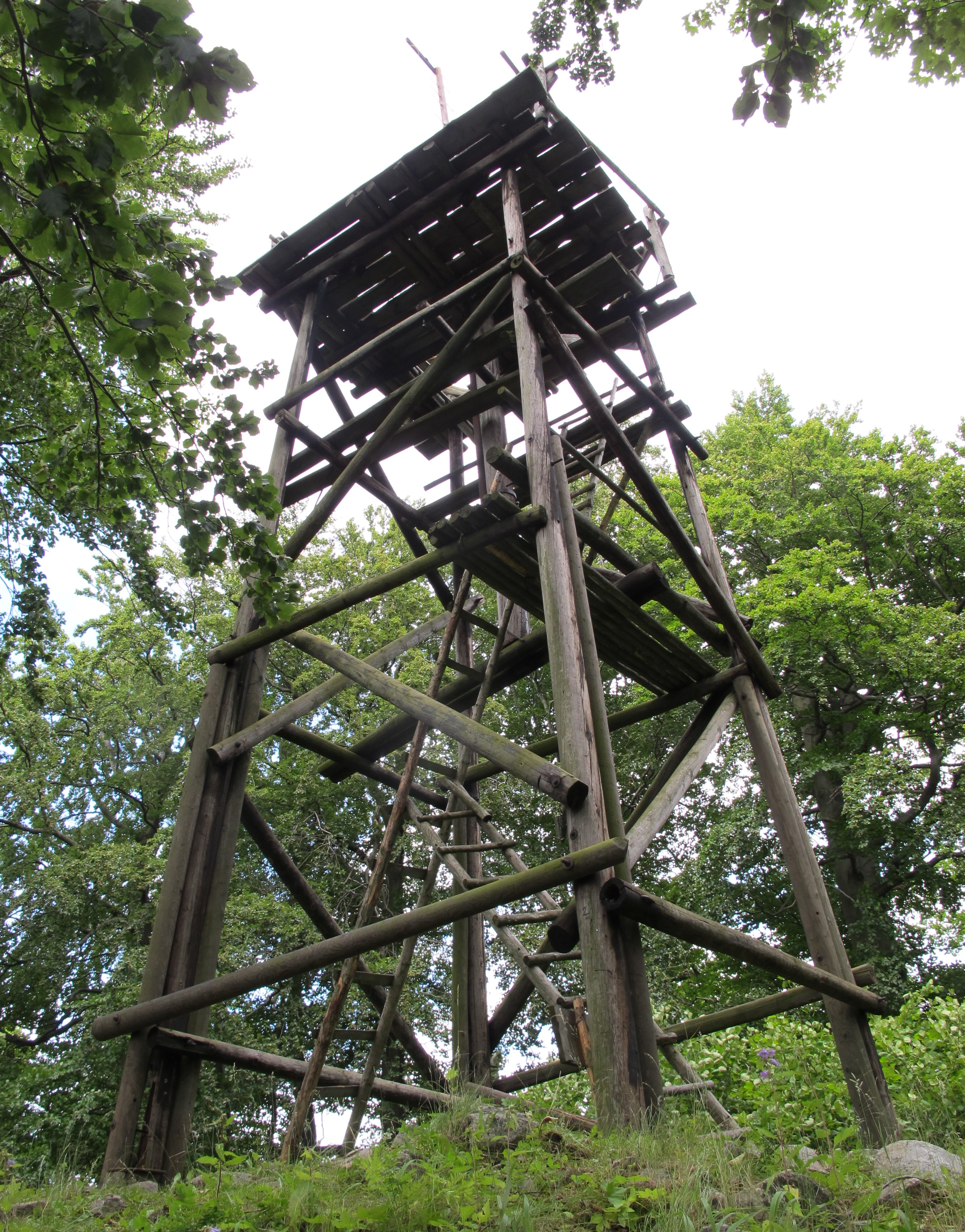 Tower on the top of the Třemšín, nature park Třemšín, Příbram District in Czech Republic